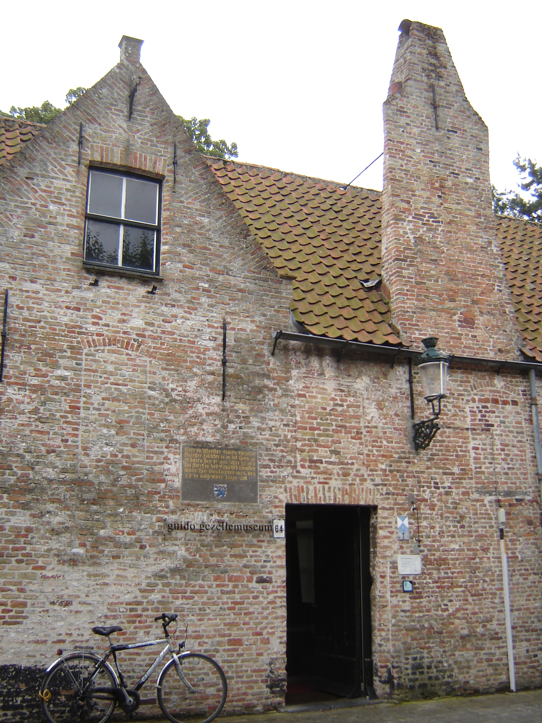 House where Flemish writer Guido Gezelle was born; nowadays Guido Gezellemuseum. Brugge, West-Flanders, Belgium.